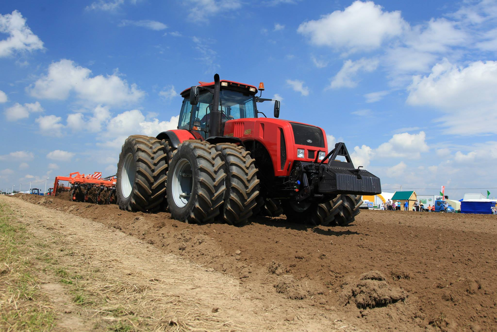 Tractor "Belarus 3022" from Minsk Tractor Works